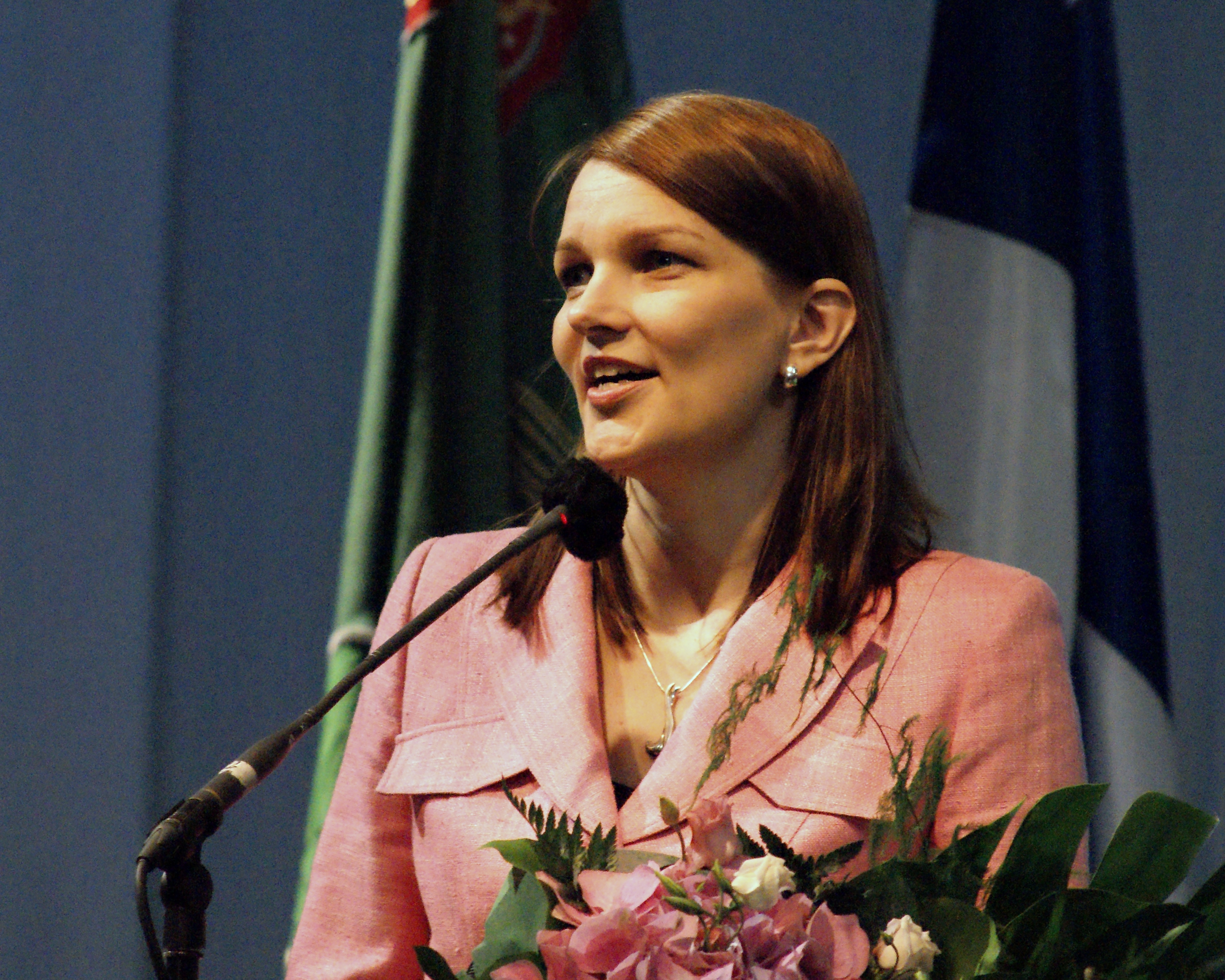 Mrs Mari Kiviniemi, the newly elected chairwoman of the Centre party of Finland, the next prime minister of Finland, Lahden Suurhalli (The great sportshall of the city of Lahti, Finland), Salpausselänkatu 7, FI-15510 LAHTI, 12th June, 2010. Photograph copyright: CC-BY-SA-3.0 and GDFL O-J Paloneva, author paloneva (at) .